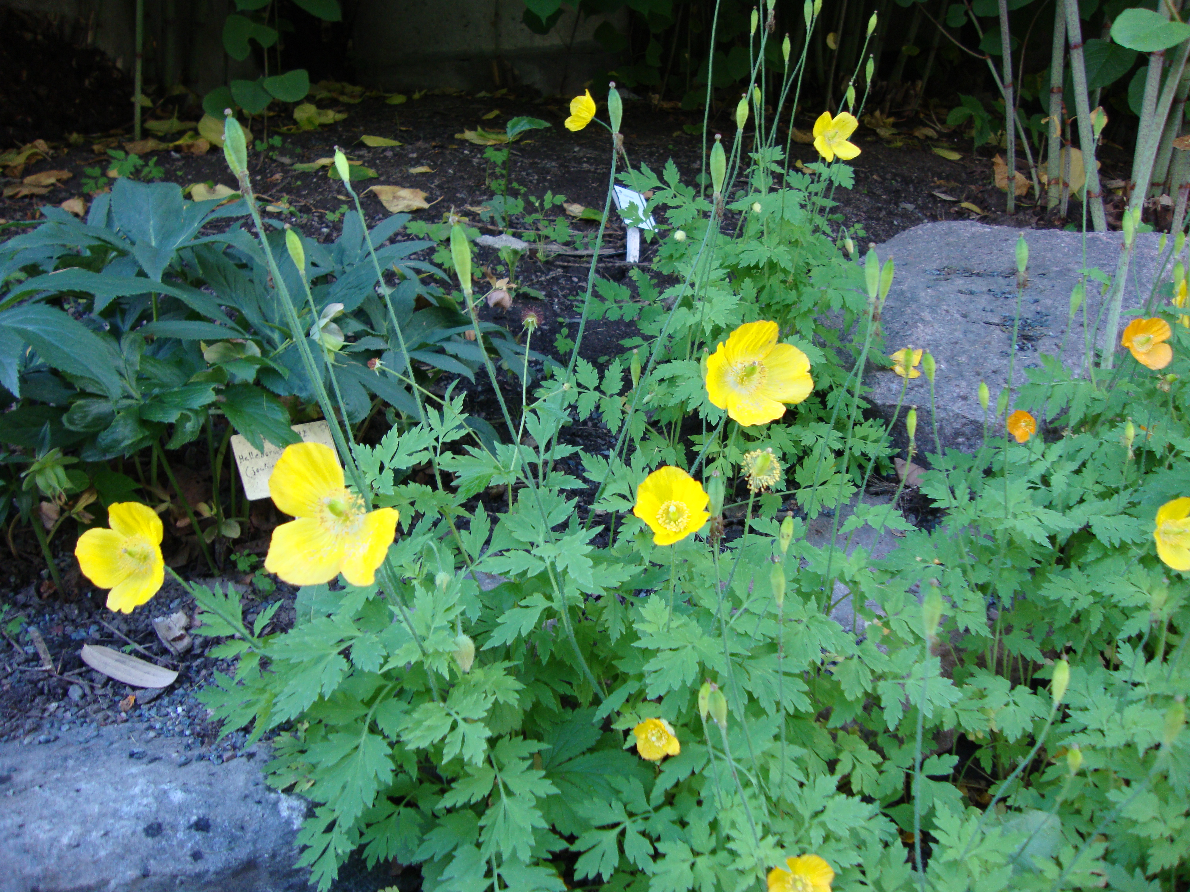 Welsh poppy in the Glasshouses of Kaisaniemi Botanical Garden